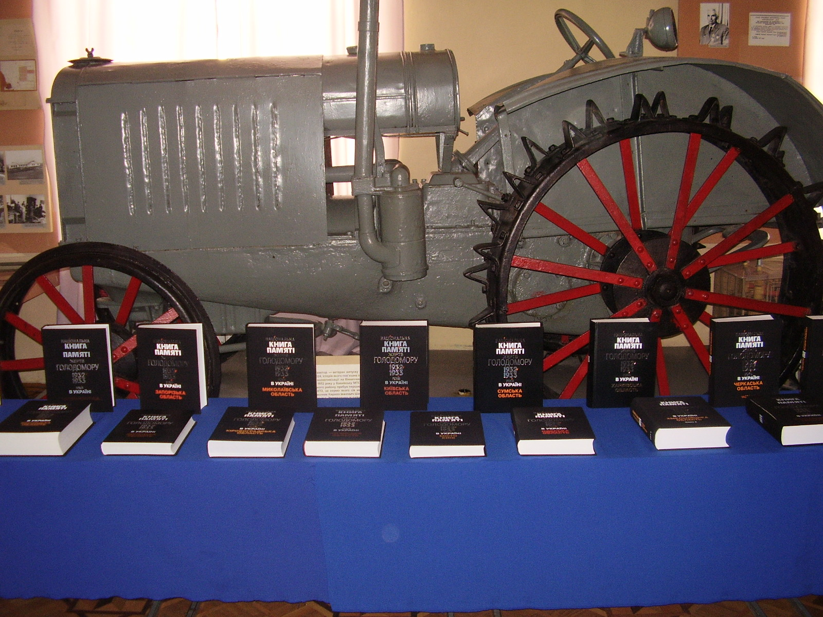 Old tractor and five year plans in museum in Ukraine (National museum vinnyoja Ukraine)